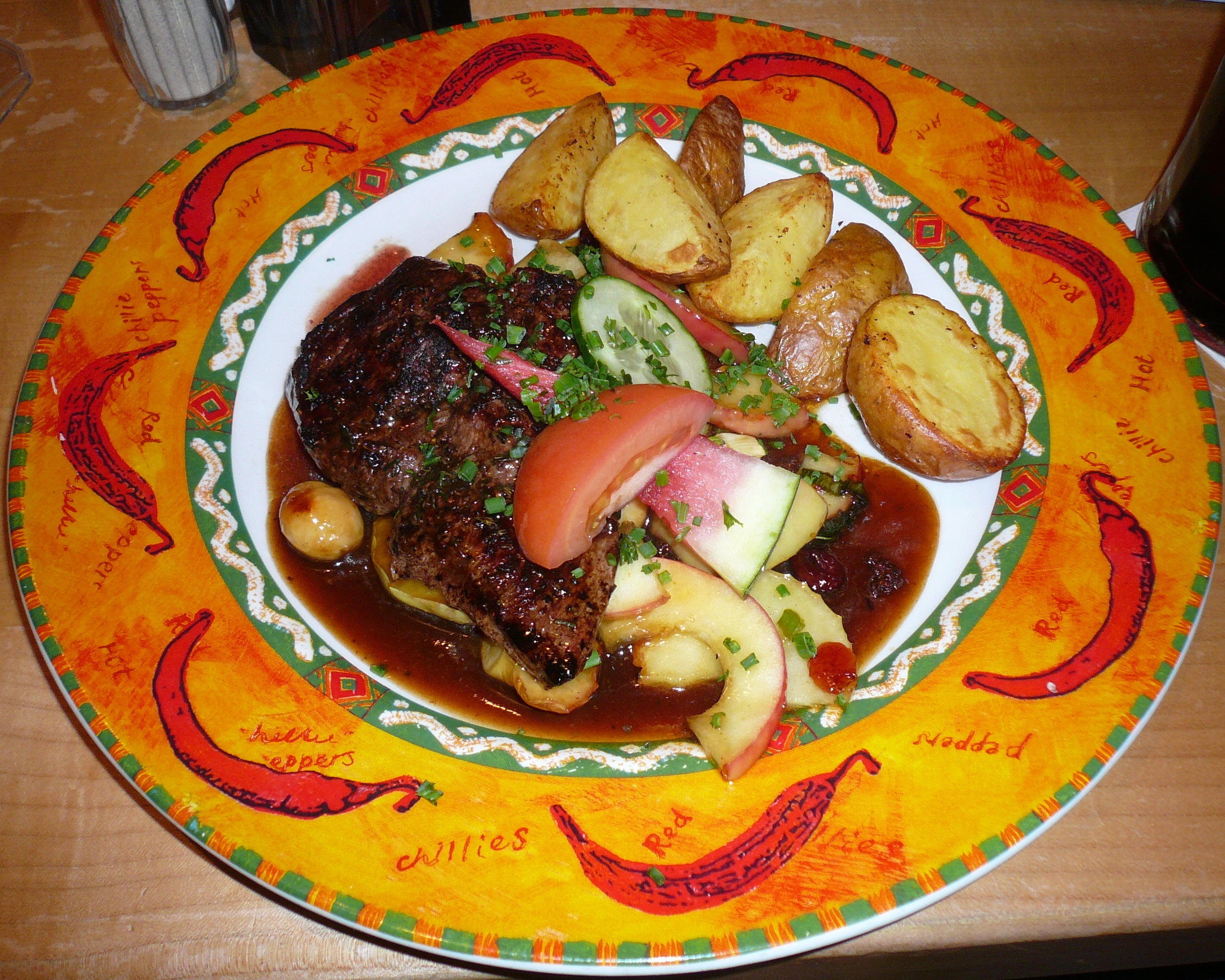 Kangaroo steak with glazed apples, cranberries and country potatoes. Australian Restaurant "Ayers Rock", Dresden, Germany.